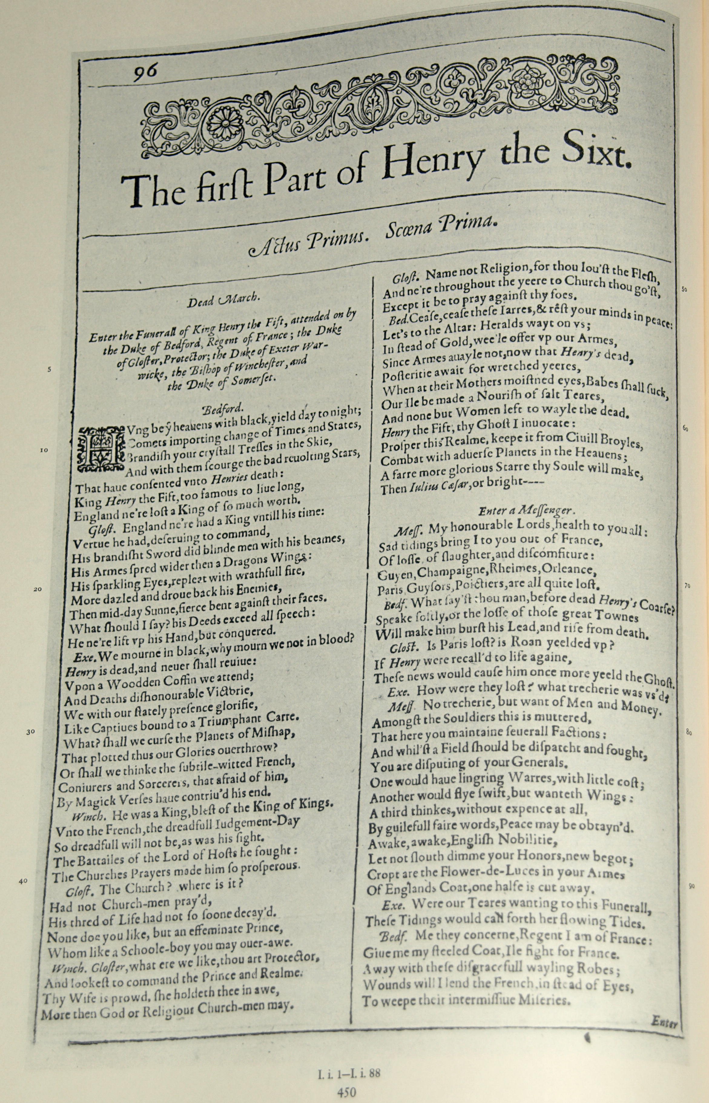 Photo of the first page of King Henry the Sixth, Part One from a facsimile edition of the First Folio of Shakespeare's plays, published in 1623